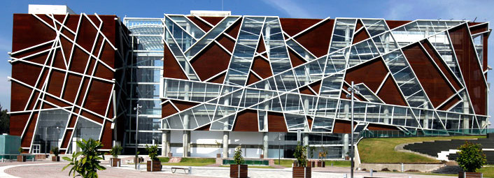 kigyuj